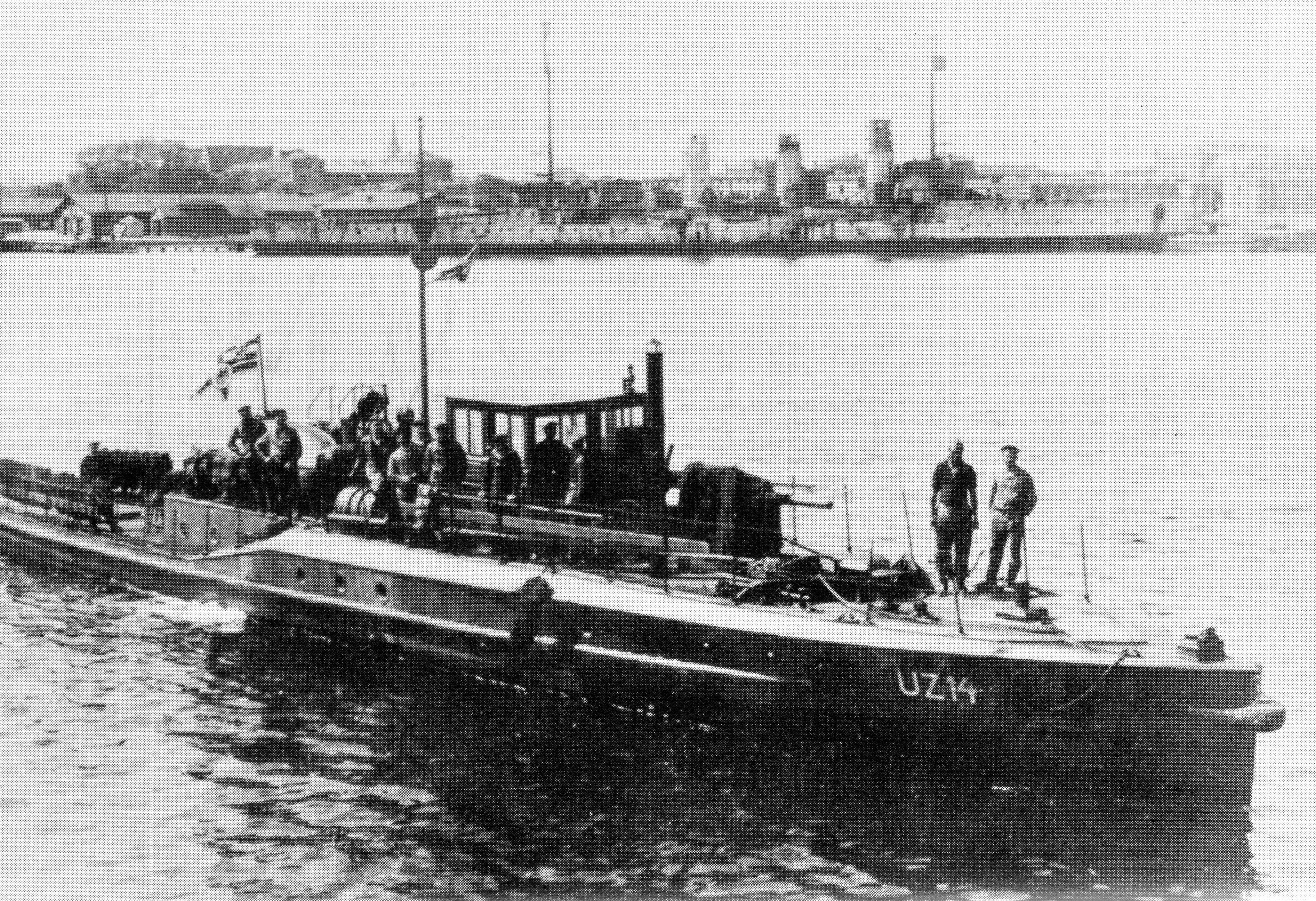 German Submarine chaser UZ 14 round about 1918.